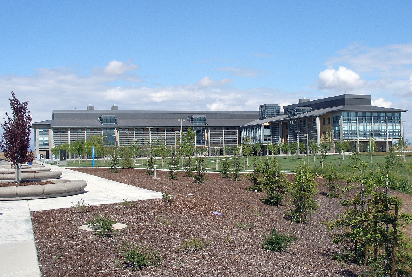 The Science and Engineering Building at the University of California. New landscape with water conserving mulch.